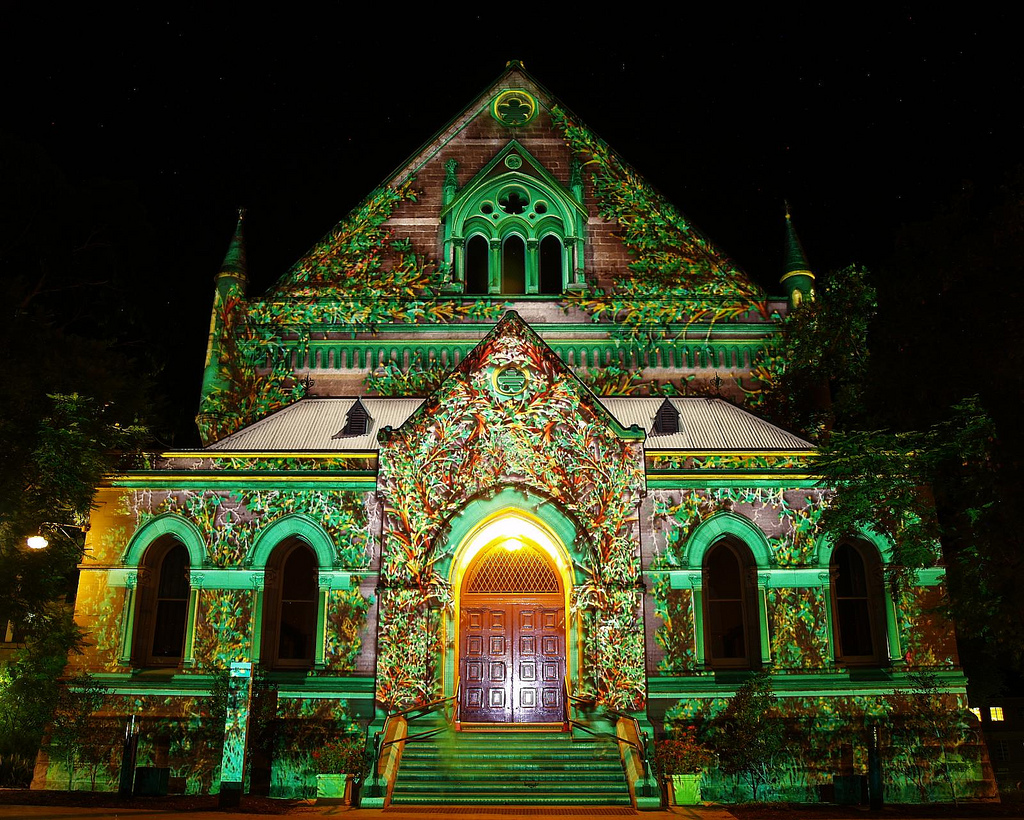 Colourful display during the Adelaide Bank Festival of Arts. Catchy name was given to this occasion, as Northern Lights usually referred to Aurora Borealis (northern hemisphere aurora).